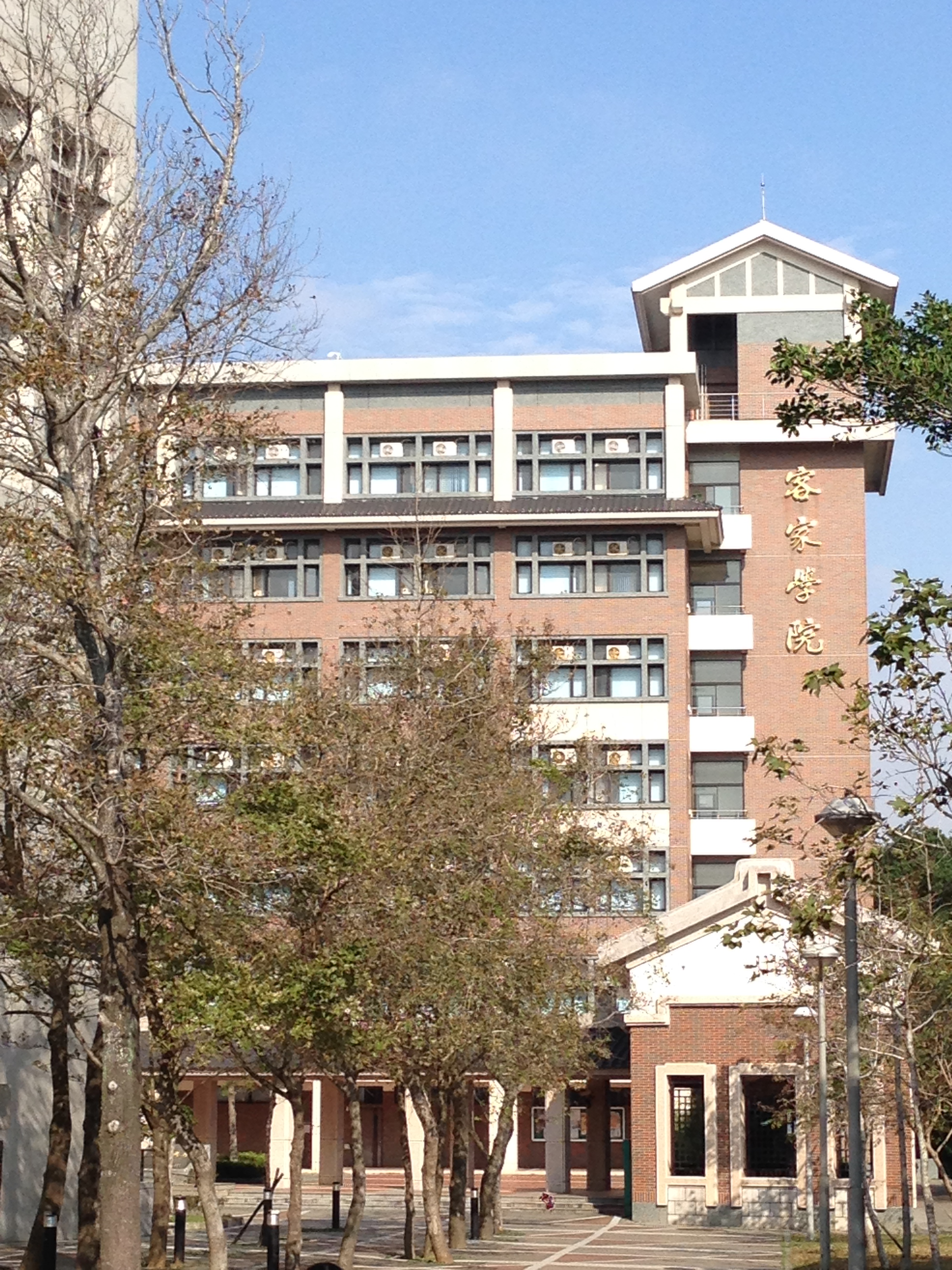 NCU Hakka College Building